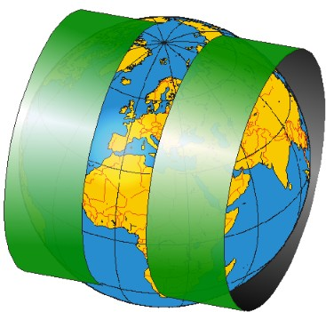 Schematic diagram of cylinder projection used for UTM (Universal Transverse Mercator).